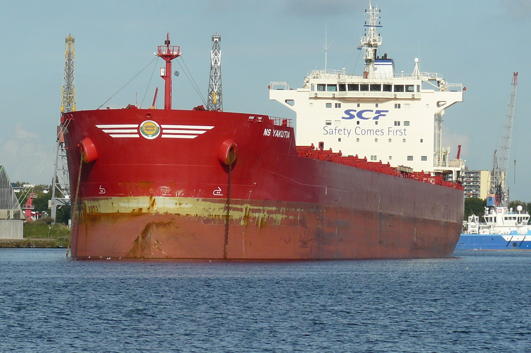 NS Yakutia in the Westhaven, Port of Amsterdam, the Netherlands (Oct 2014)